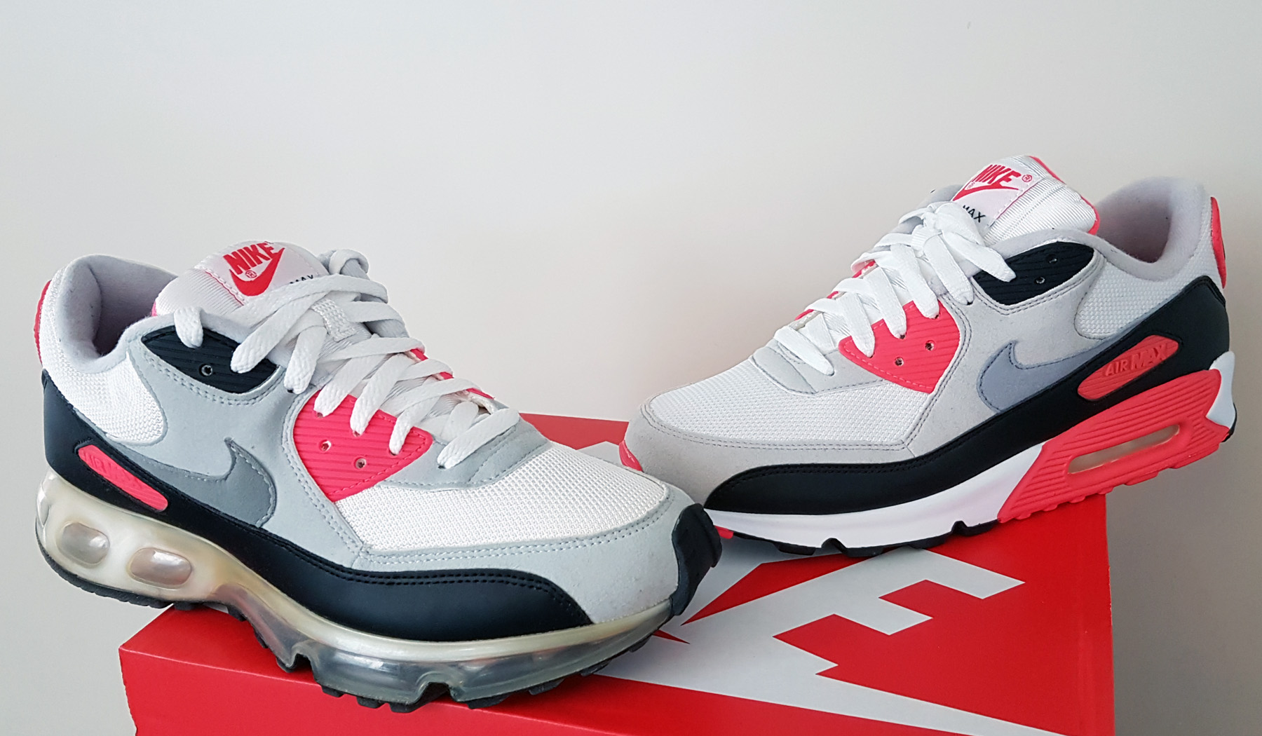 Photo of the Air Max 90 360 Hybrid in the original Infrared colorway (2006 One Time Only Pack)